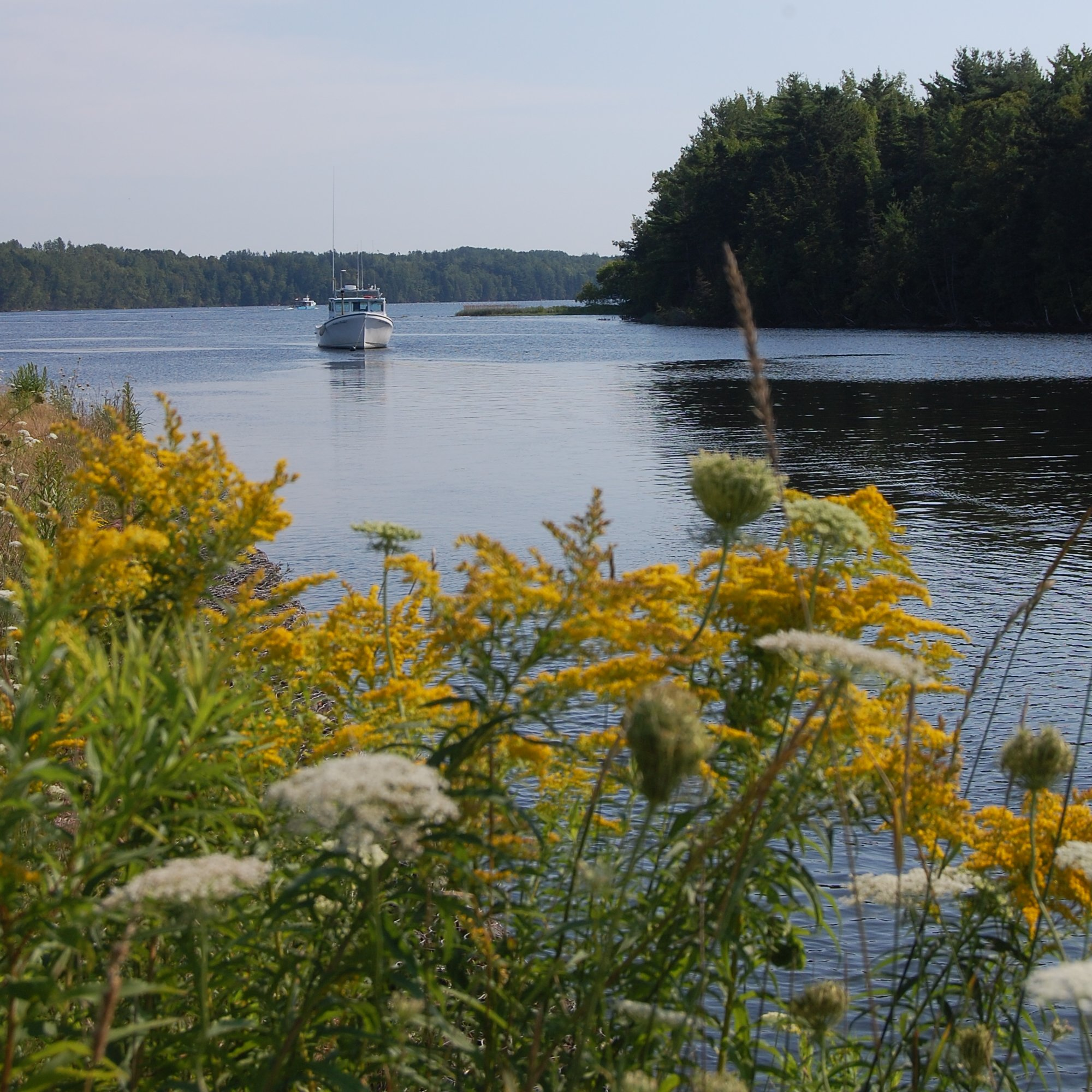 Vessels at their moorings on Cardigan River, Prince Edward Island